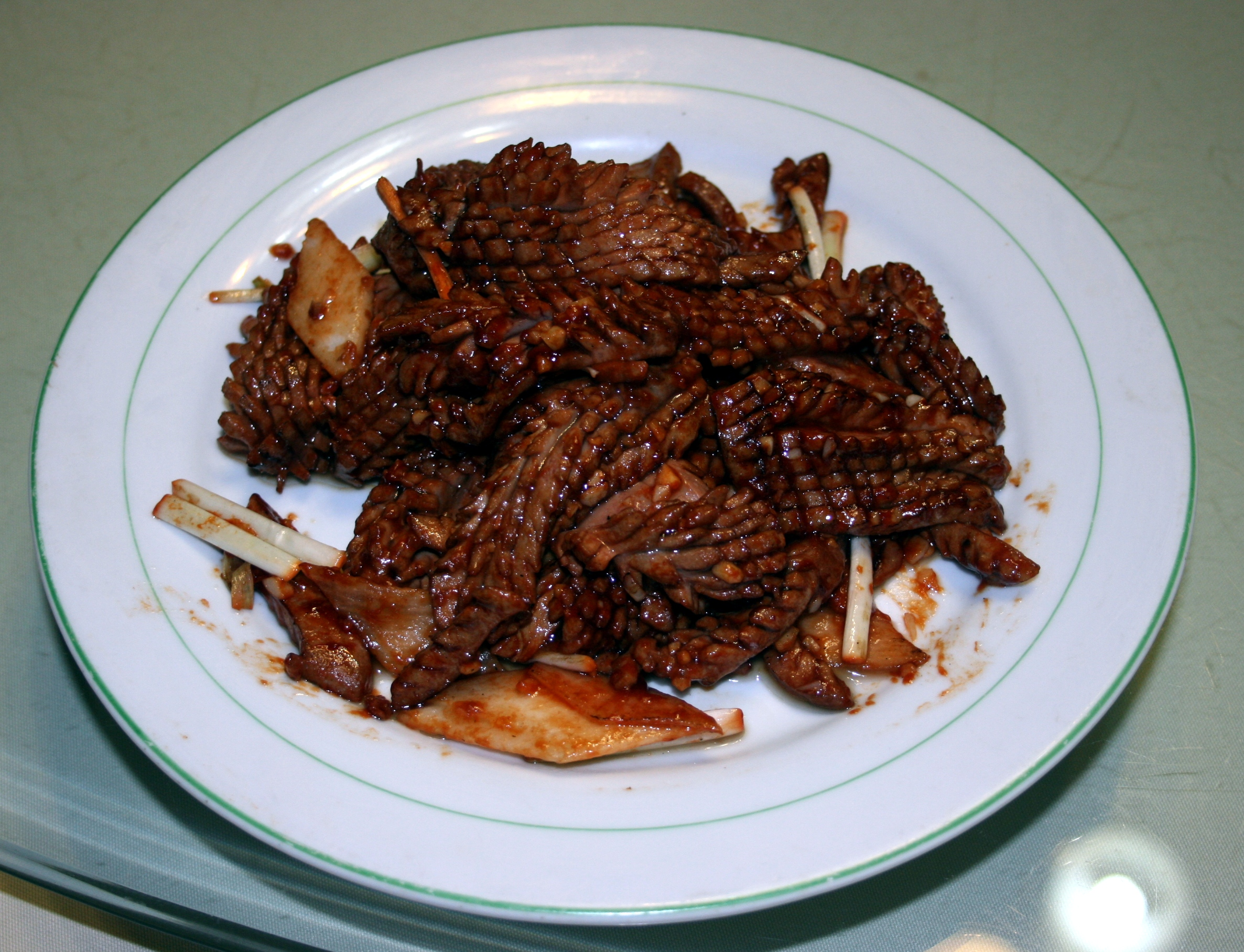 Photograph of the baochao yaohua (爆炒腰花) dish served in Jinan, Shandong Province, China (restaurant: 至尊源菜馆, zhì zūn yuán cài guǎn).